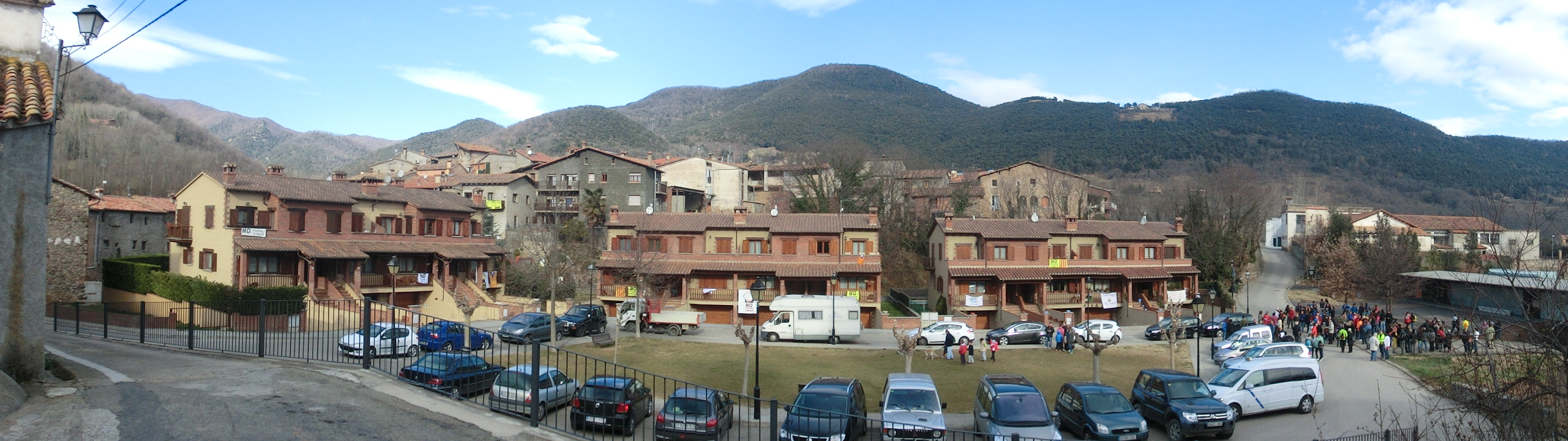 Riudaura's Pla dels Tiradors (la Garrotxa, Catalonia, Catalan Countries), with banners against fracking and the start of the popular walk against fracking (10th February 2013).